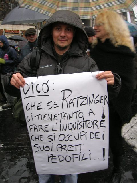 "NO VAT 2007" 10 February 2007, Rome. March organized by Facciamo Breccia against the interference of the Catholic Church in Italian Politics. The boars says: If playing the inquisitor matters so much to Pope Ratzinger, why doesn't he care for paedophile priests?